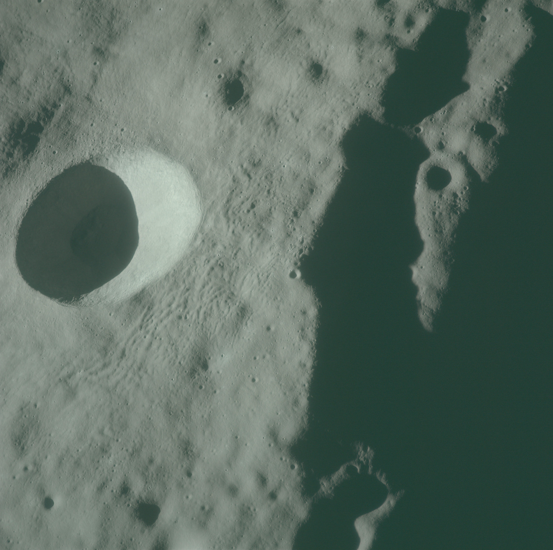 Oblique view of small, unnamed crater (left) on the rim of Papaleksi crater, on the far side of the moon.